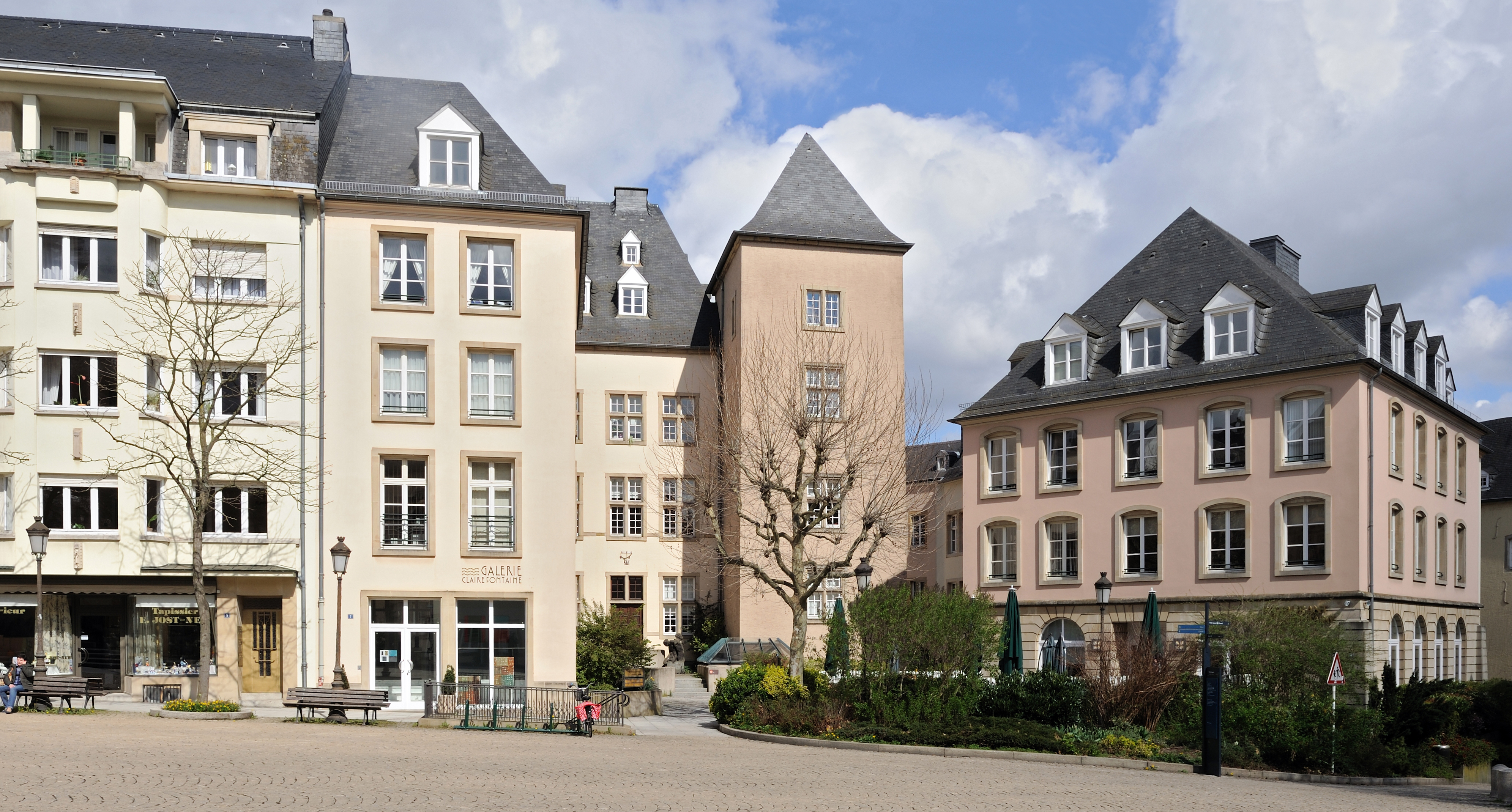 Luxembourg City: place de Clairefontaine, eastern end. The tower was part of the second forttress walls erected by Count Giselbert around 1050. Together with the neighbouring Maison Mohr-de-Waldt the tower had been listed as a cultural heritage monuments in 1981, but has been destroied during building works. The current one is a reconstruction.